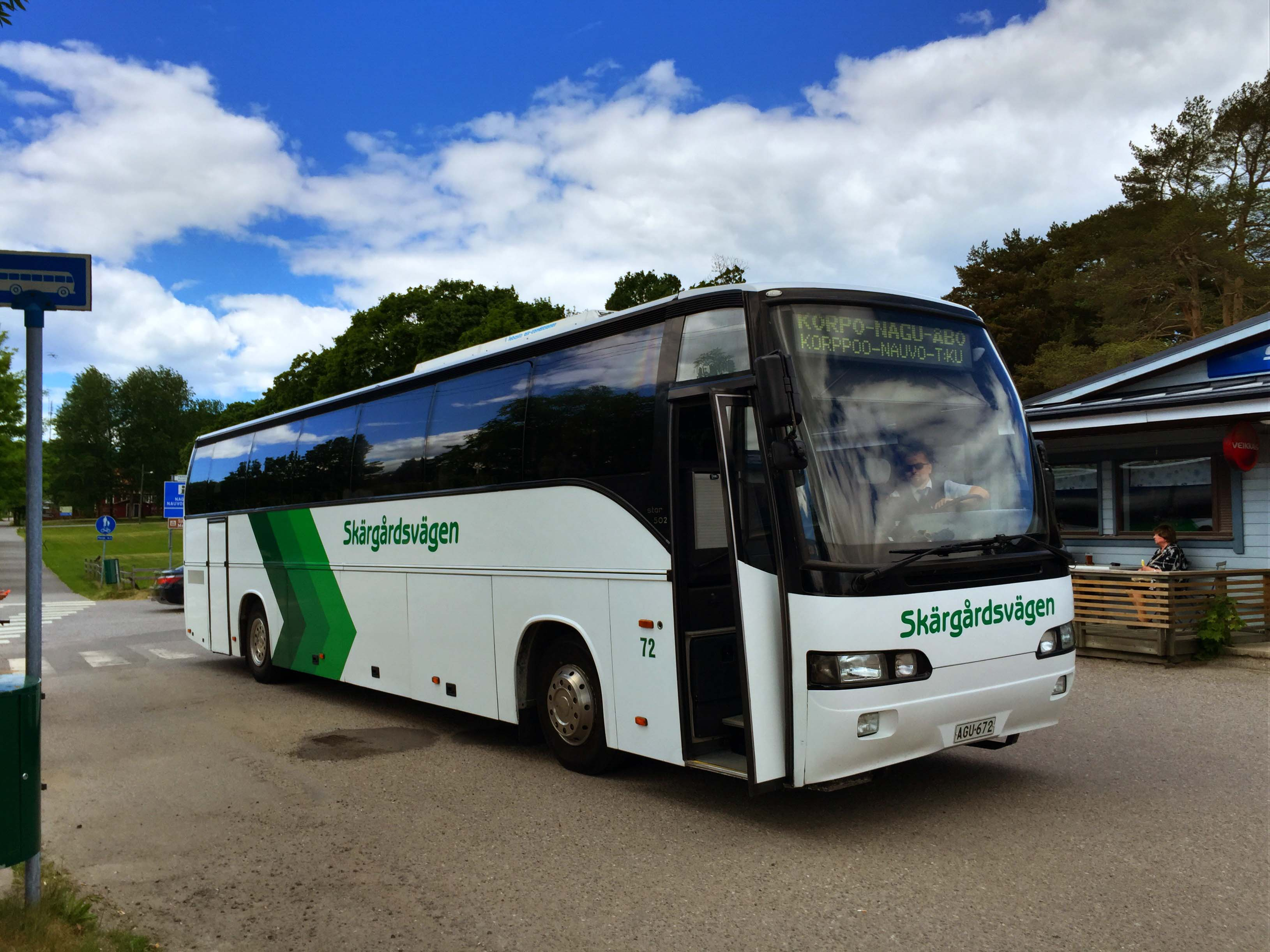 Skärgårdsvägens buss 5.6.2016